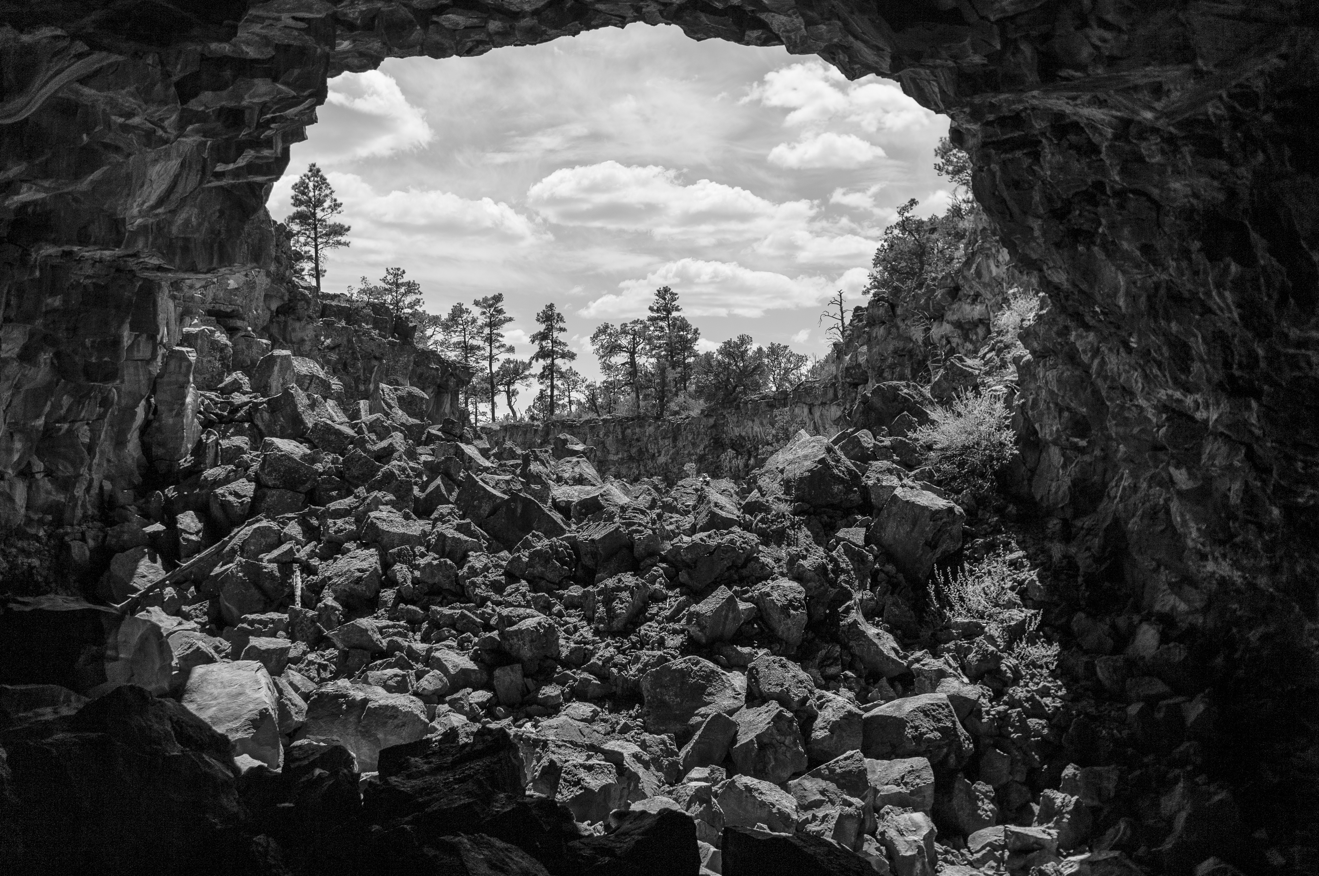 Looking out of Giant Ice Cave in the Big Tube section of El Malpais National Monument